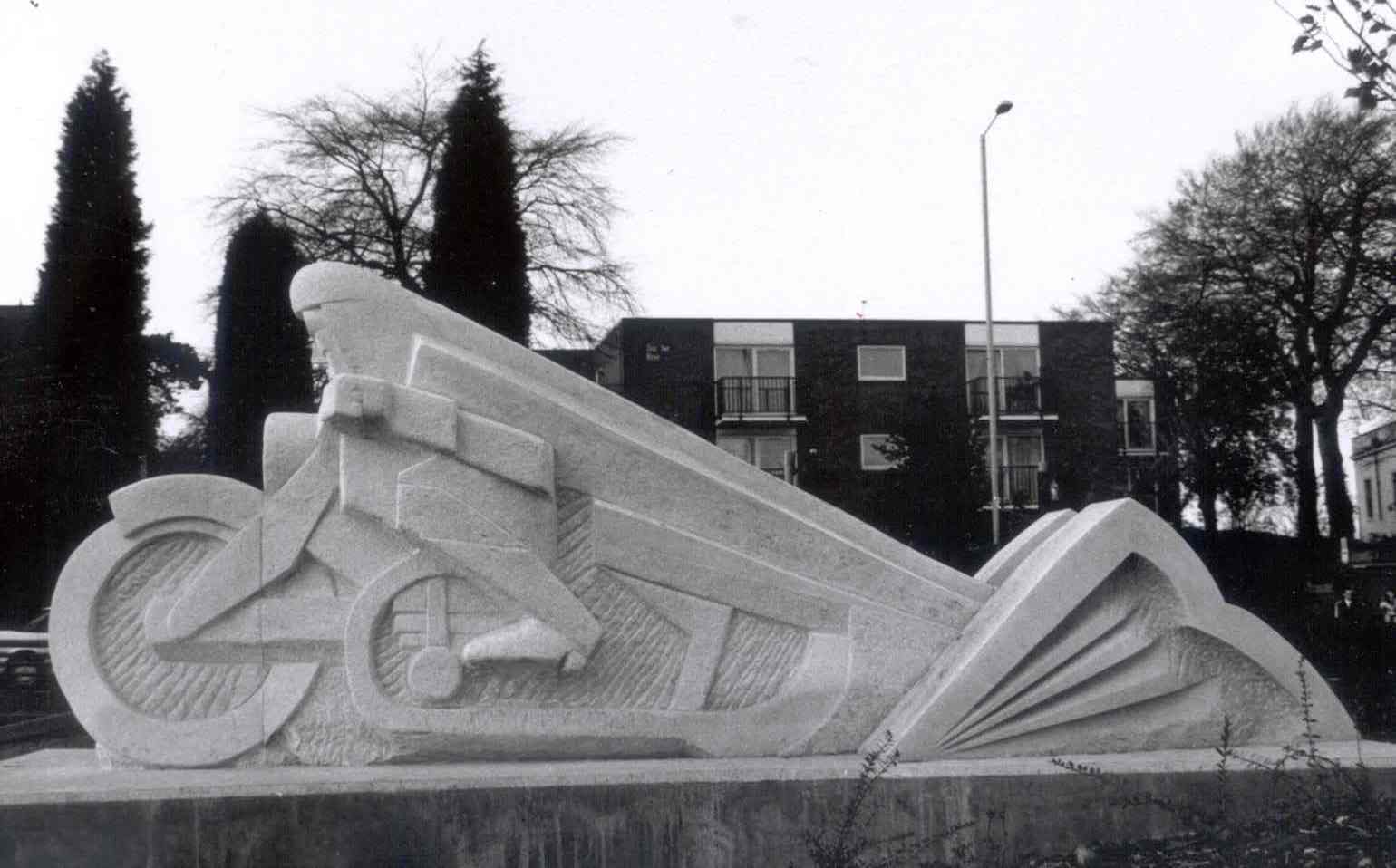 The Lone Rider, designed by English sculptor Steve Field. Marks the site of the former AJS motorcycle factory. Carved by Robert Bowers, assisted by Michael Scheuermann.